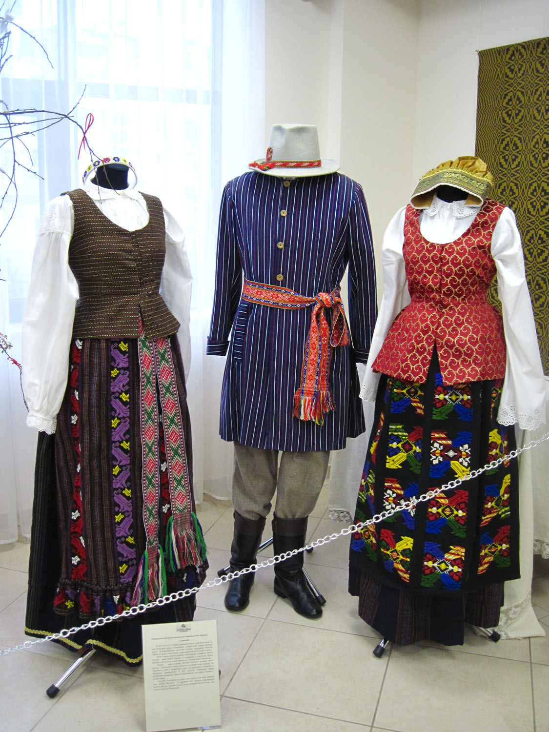 Lithuanian traditional costumes (reconstruction). Suvalkija region. Exhibition in Kyiv.